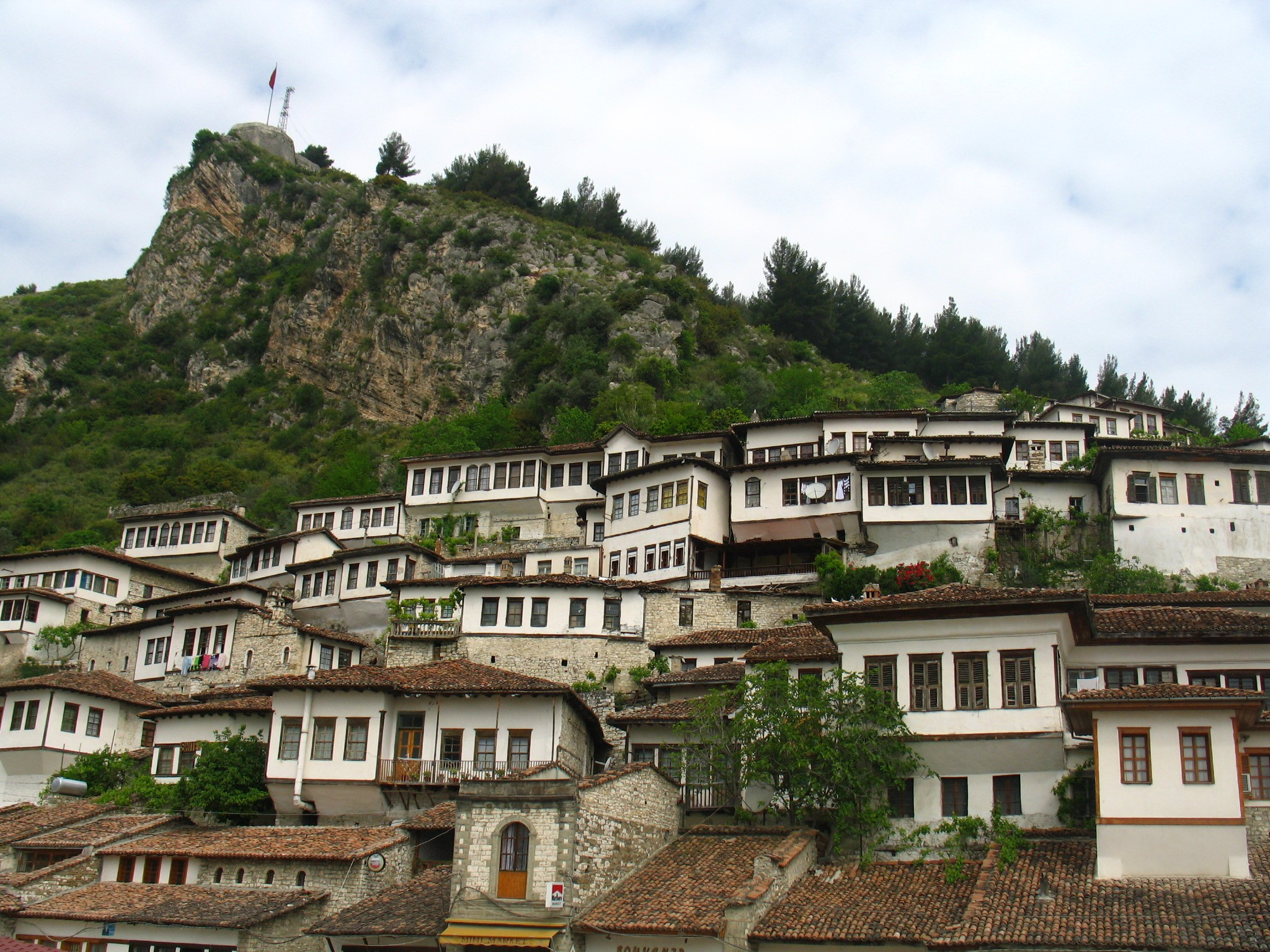 Town of Berat, Albania